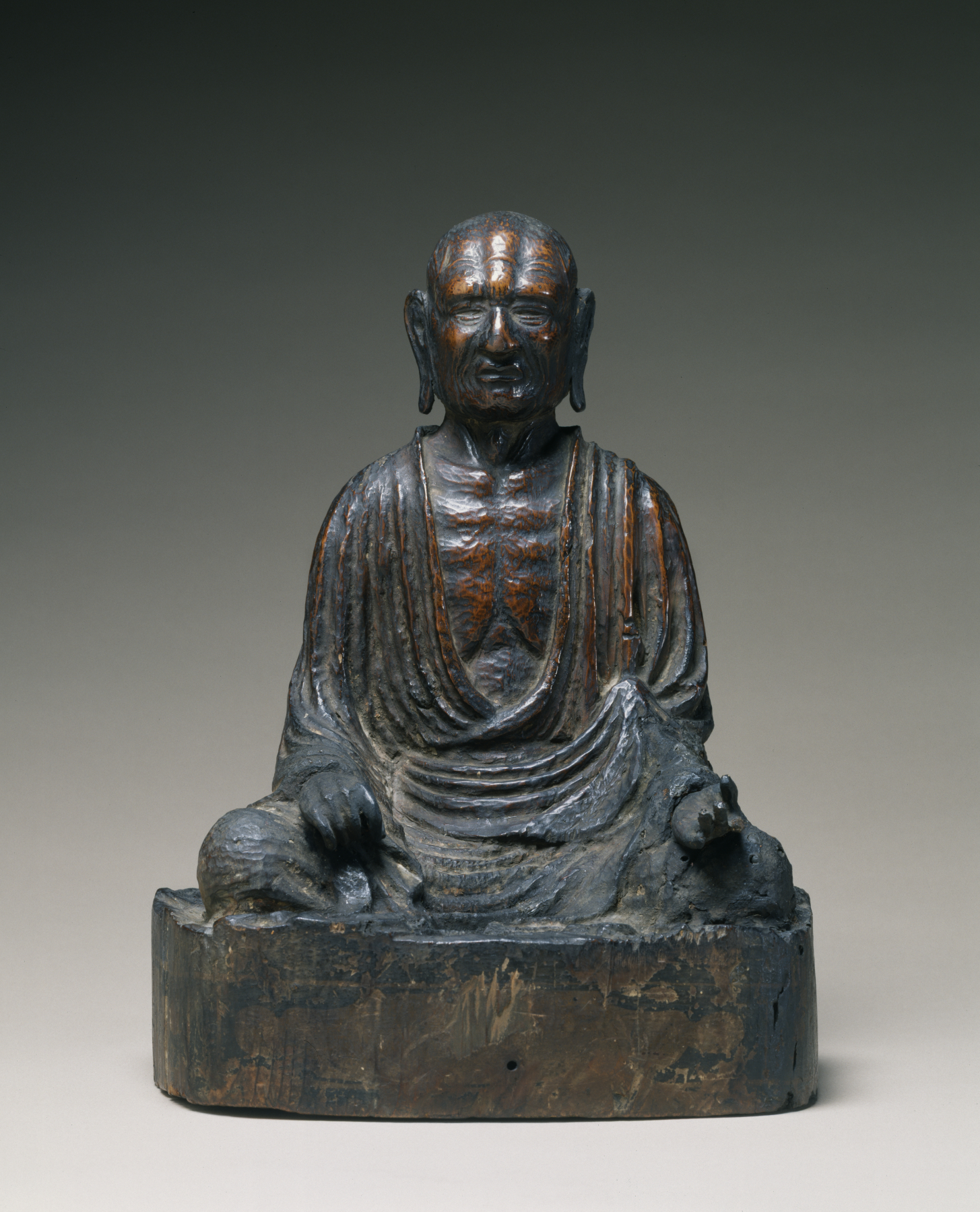 The inscription under the base of this figure states that it was made for (or perhaps by) Monkan in the year 1347. It likely represents a Shingon priest of this name who lived from 1278-1357 and excelled in the painting of Buddhist subjects. The sculpture's small scale, fine detail, and formal composition suggest that it ws made as a personal devotional object for use at temple feasts and other ritualized functions. It is carved from a single piece of Japanese cedar.